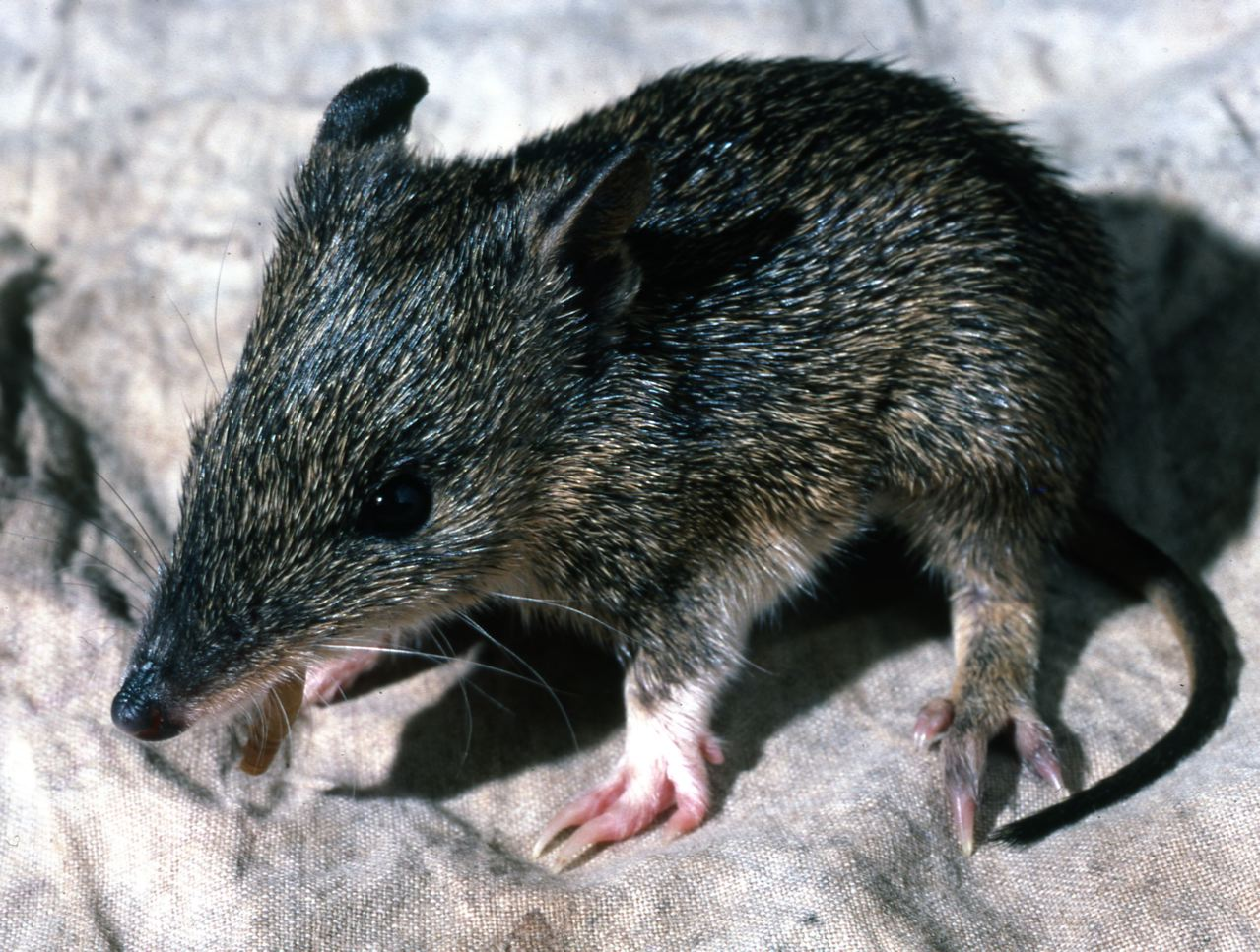 Almost-weaned, juvenile Southern Brown Bandicoot (Isoodon obesulus), Cranbourne, Victoria. Image shows; well-developed front claws, used for digging; syndactylous ('grooming toes') condition on hind foot. Animal handled under Victorian wildlife handling permit.